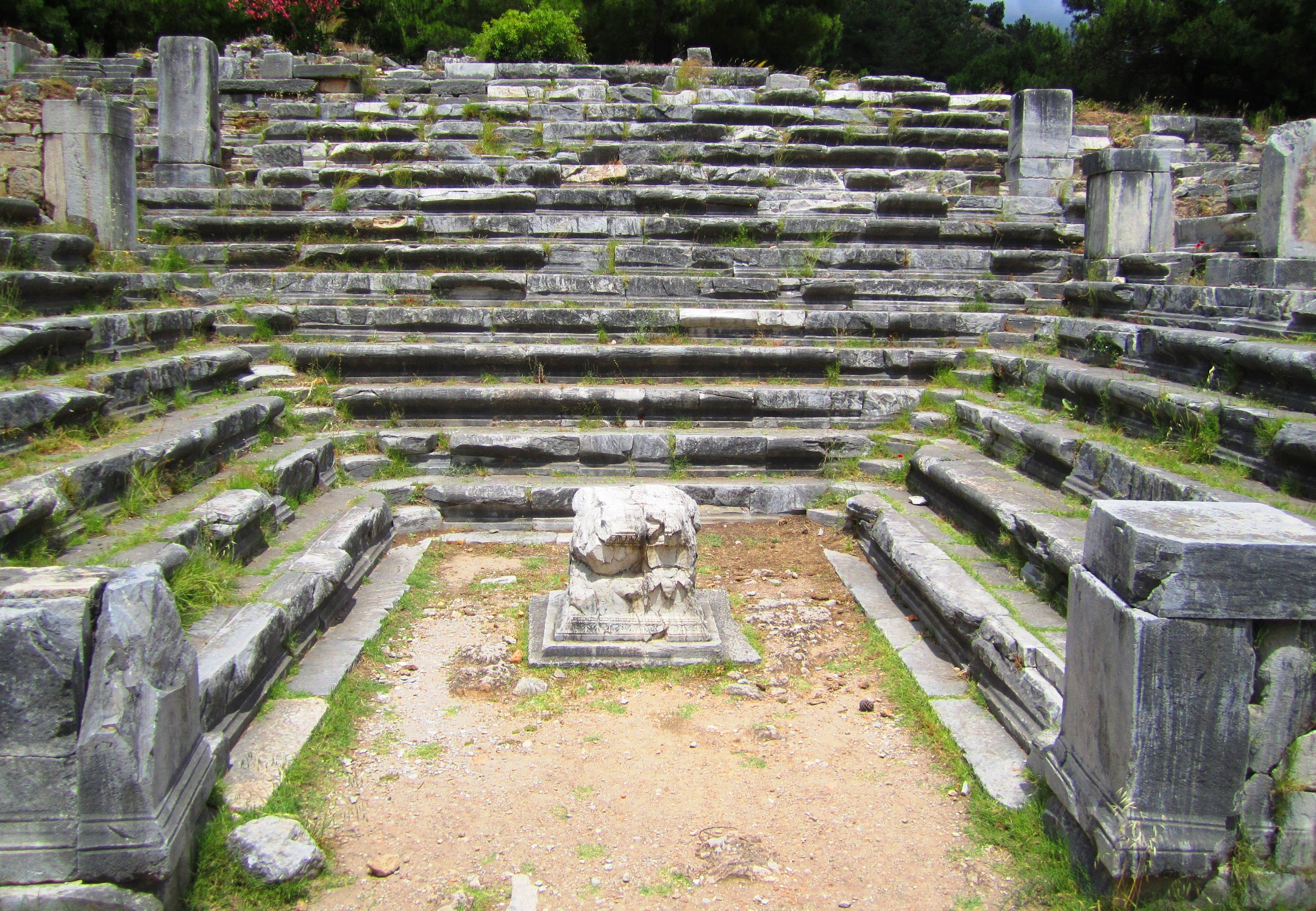 Bouleuterion in Priene